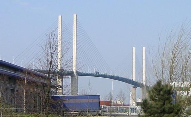 Queen Elizabeth II Bridge, Dartford The bridge was opened on the 30th October 1991, is 450 metres long and is Europe's largest cable supported bridge.